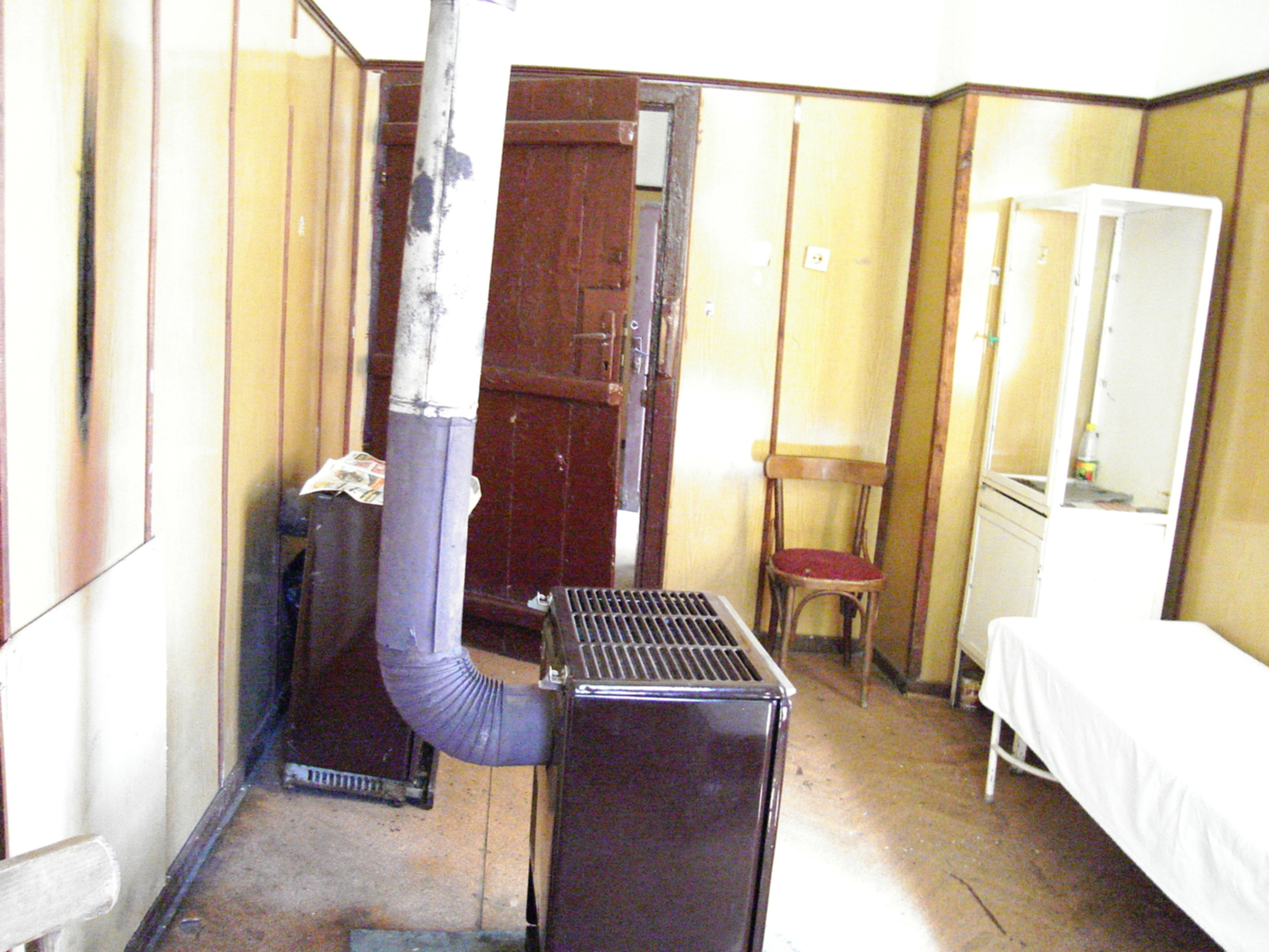 The medical consulting room in village Gigintsi, Bulgaria